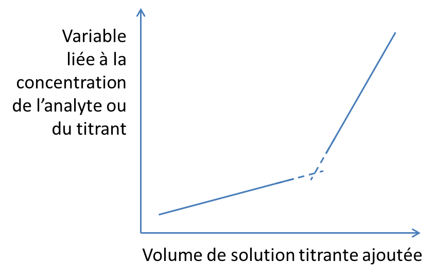 Linear titration curve